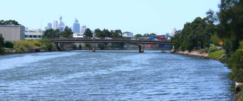 Image of the Alexandra Canal in Sydney.